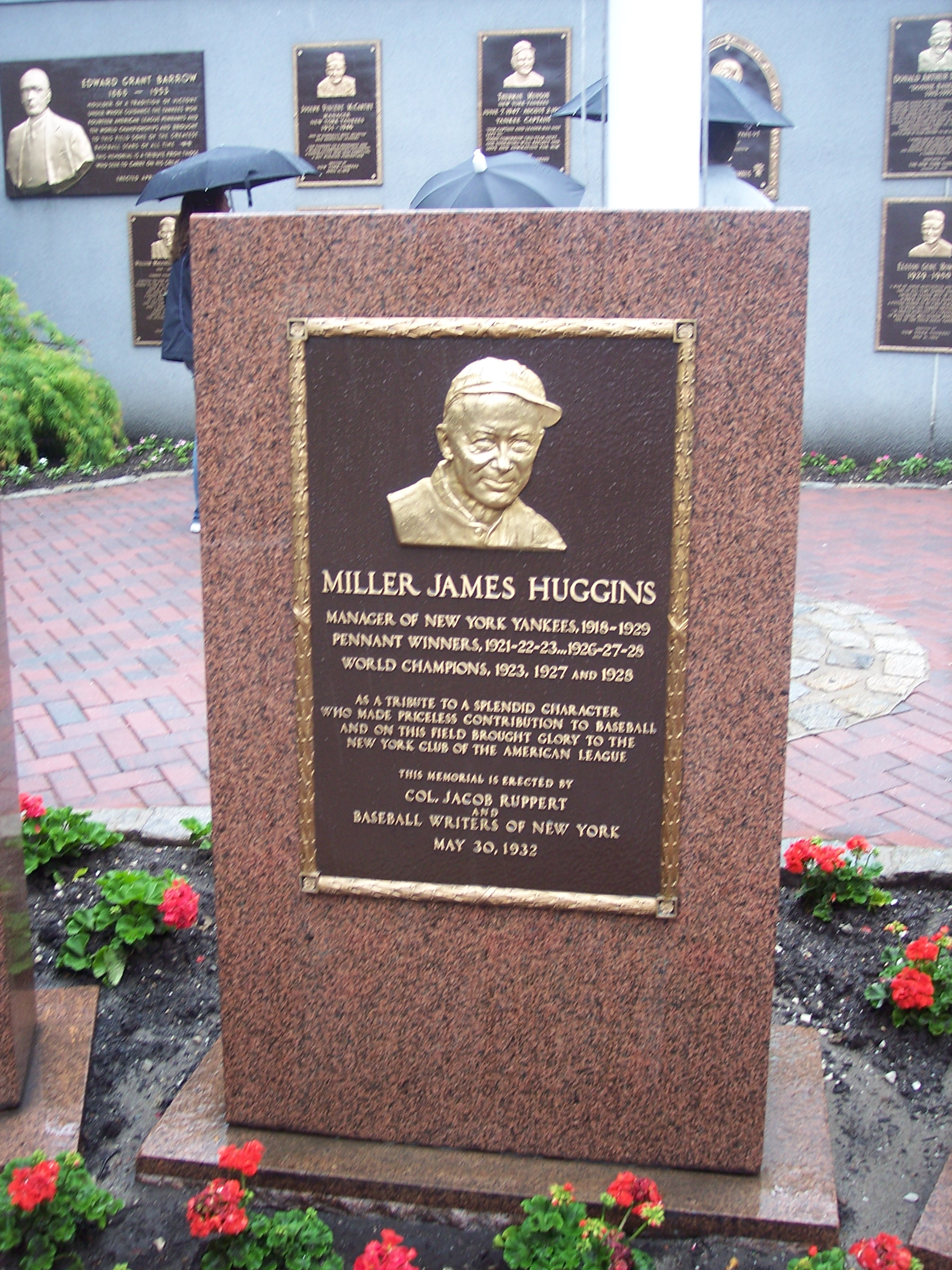 Source: I, the Silent Wind of Doom took the picture on a tour of Yankee Stadium 03:08, 14 November 2006 . . Silent Wind of Doom . . 2142×2856 (1,591,695 bytes)